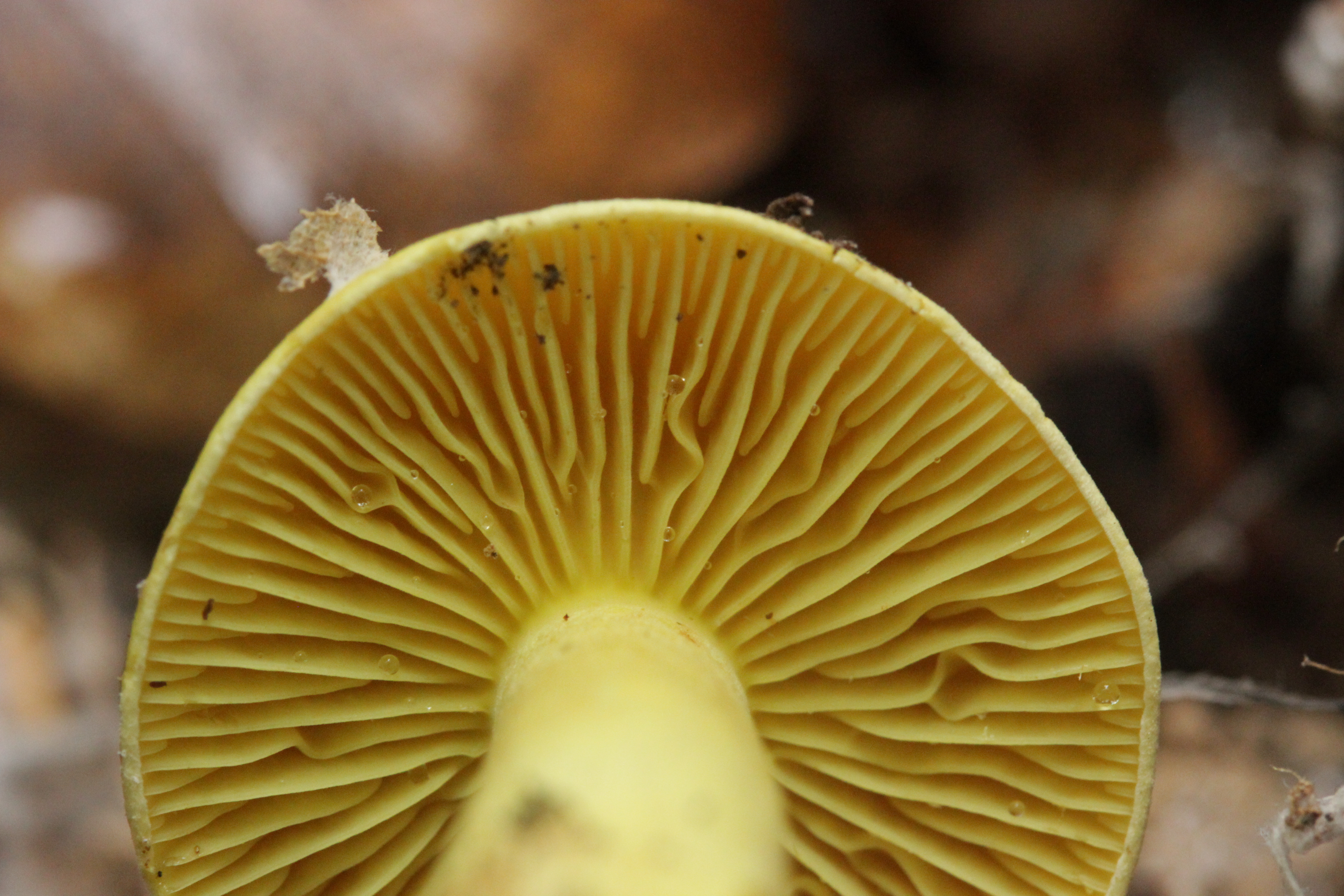 Sulphur Knight - Tricholoma sulphureum